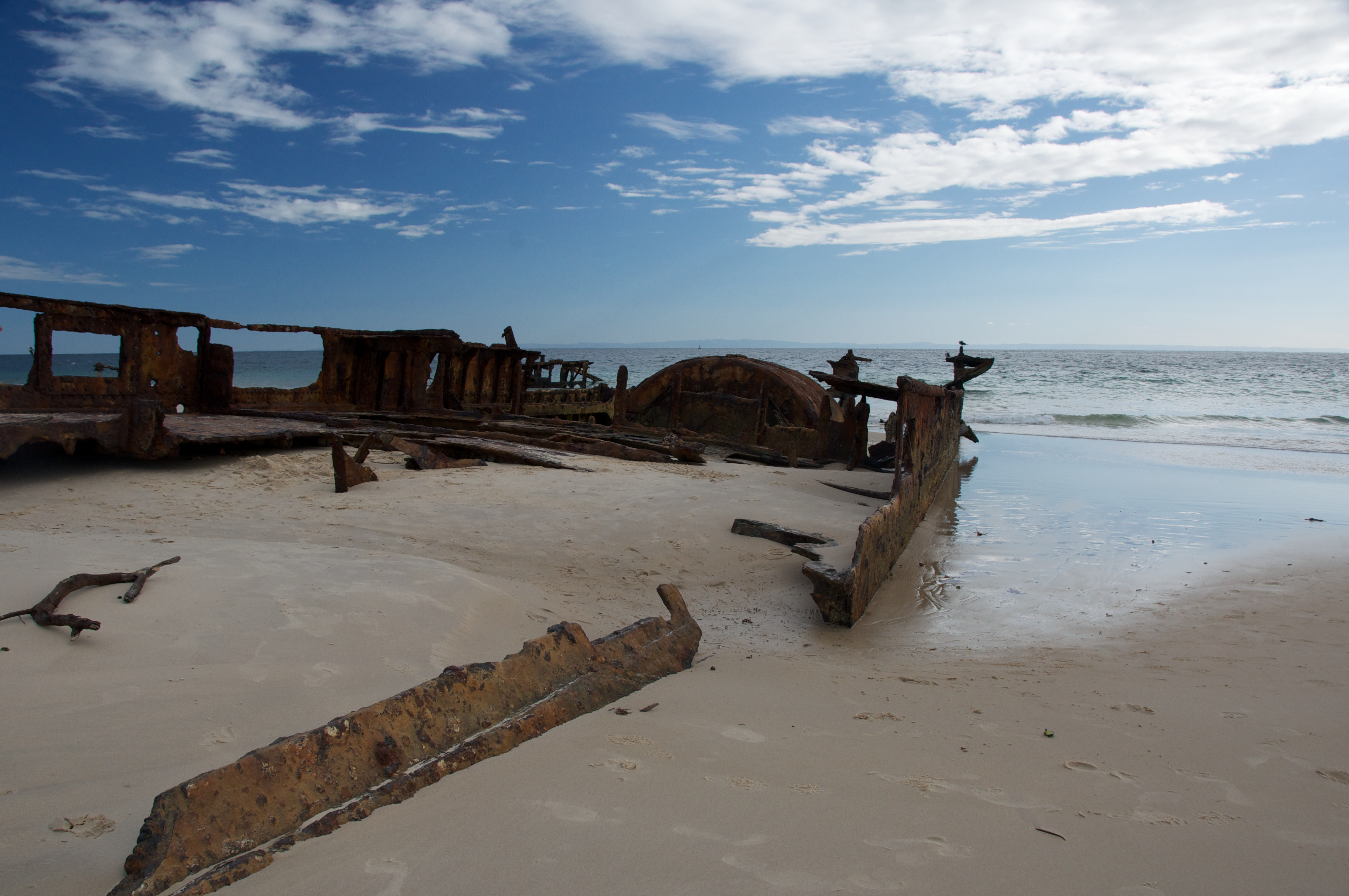 Bulwer wrecks, 2011